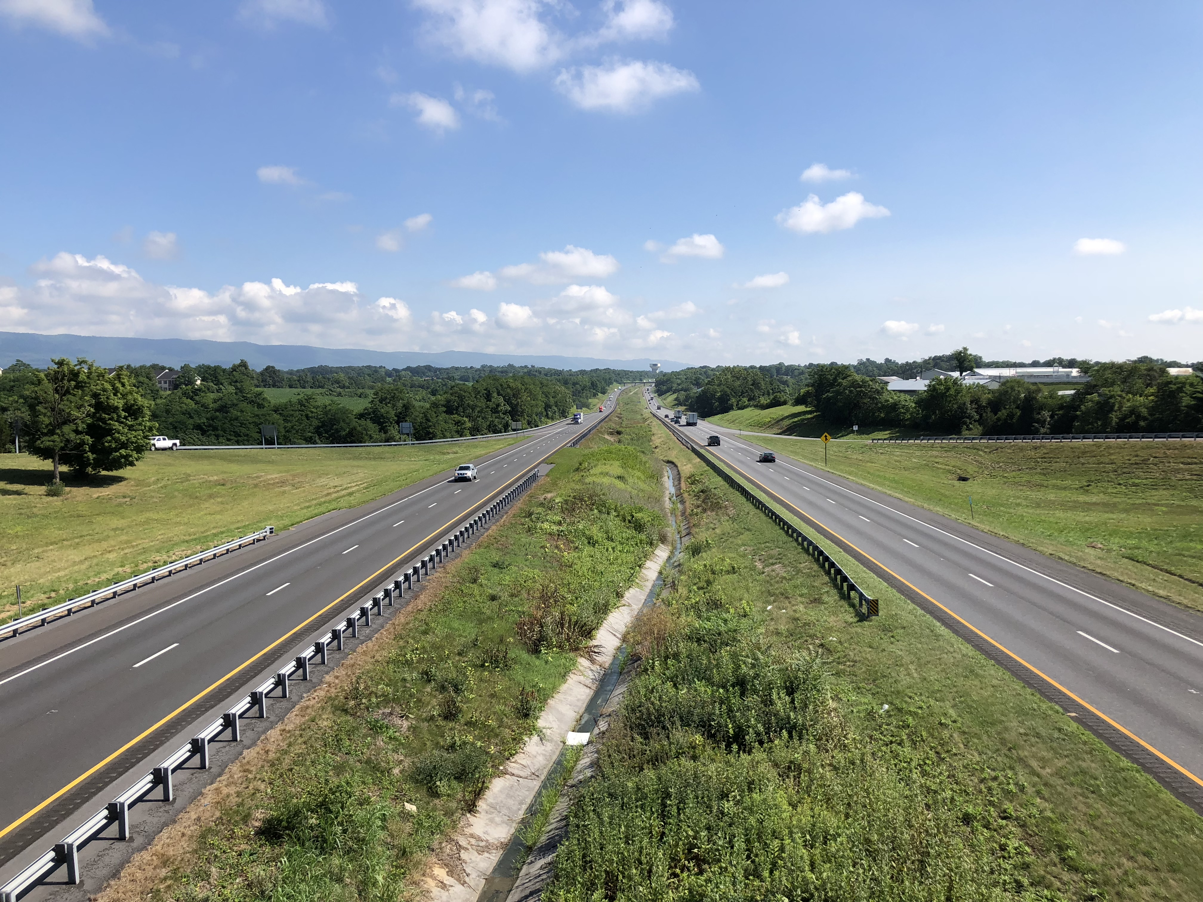 View north along Interstate 81 from the overpass for Virginia State Route 42 (West Reservoir Road) in Woodstock, Shenandoah County, Virginia